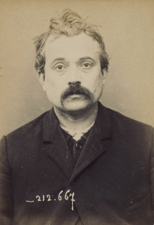 Mugshot of Jean Grave.